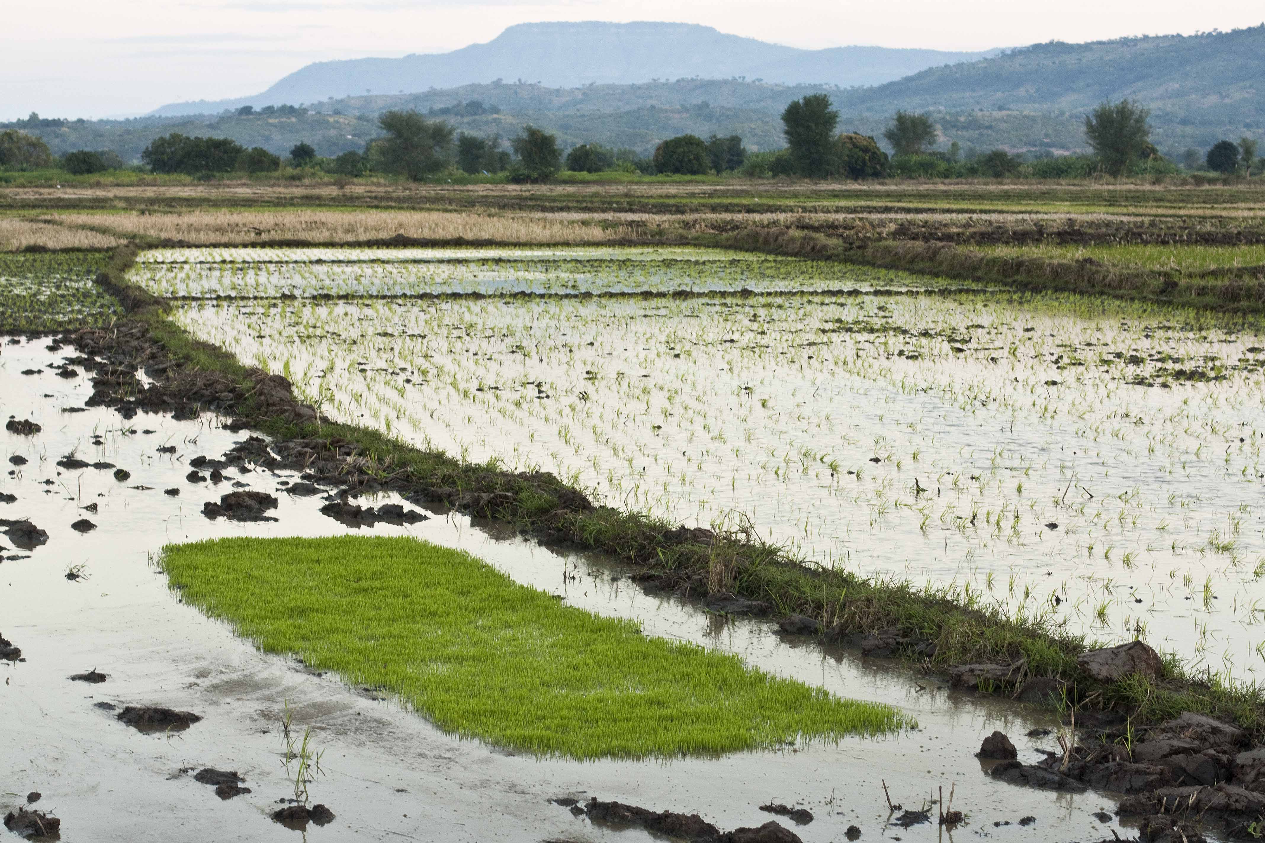 Rice nursery and fields in Karonga, Malawi.